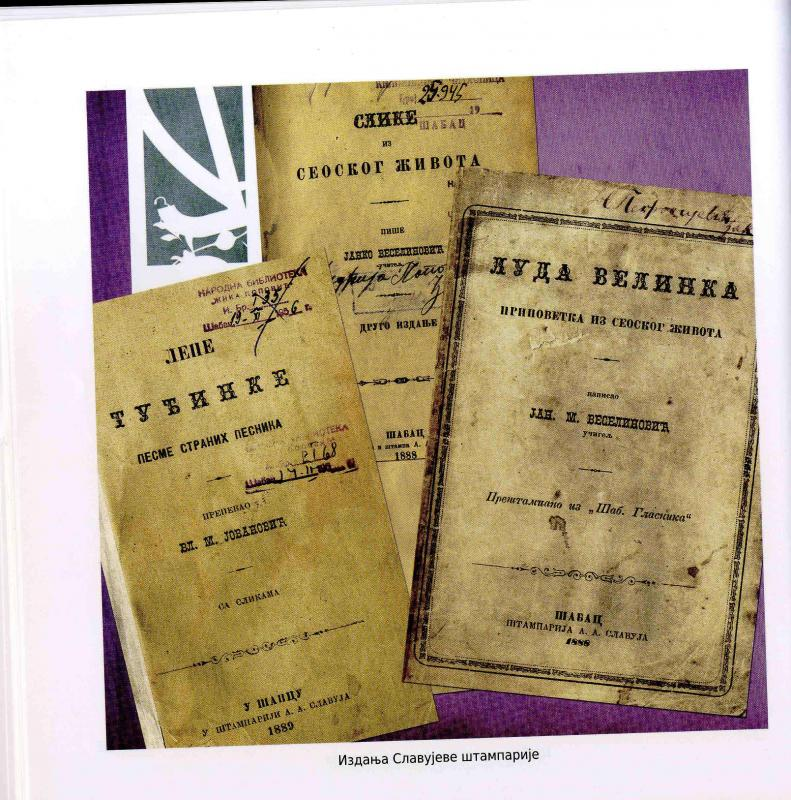 Издања Славујеве штампарије